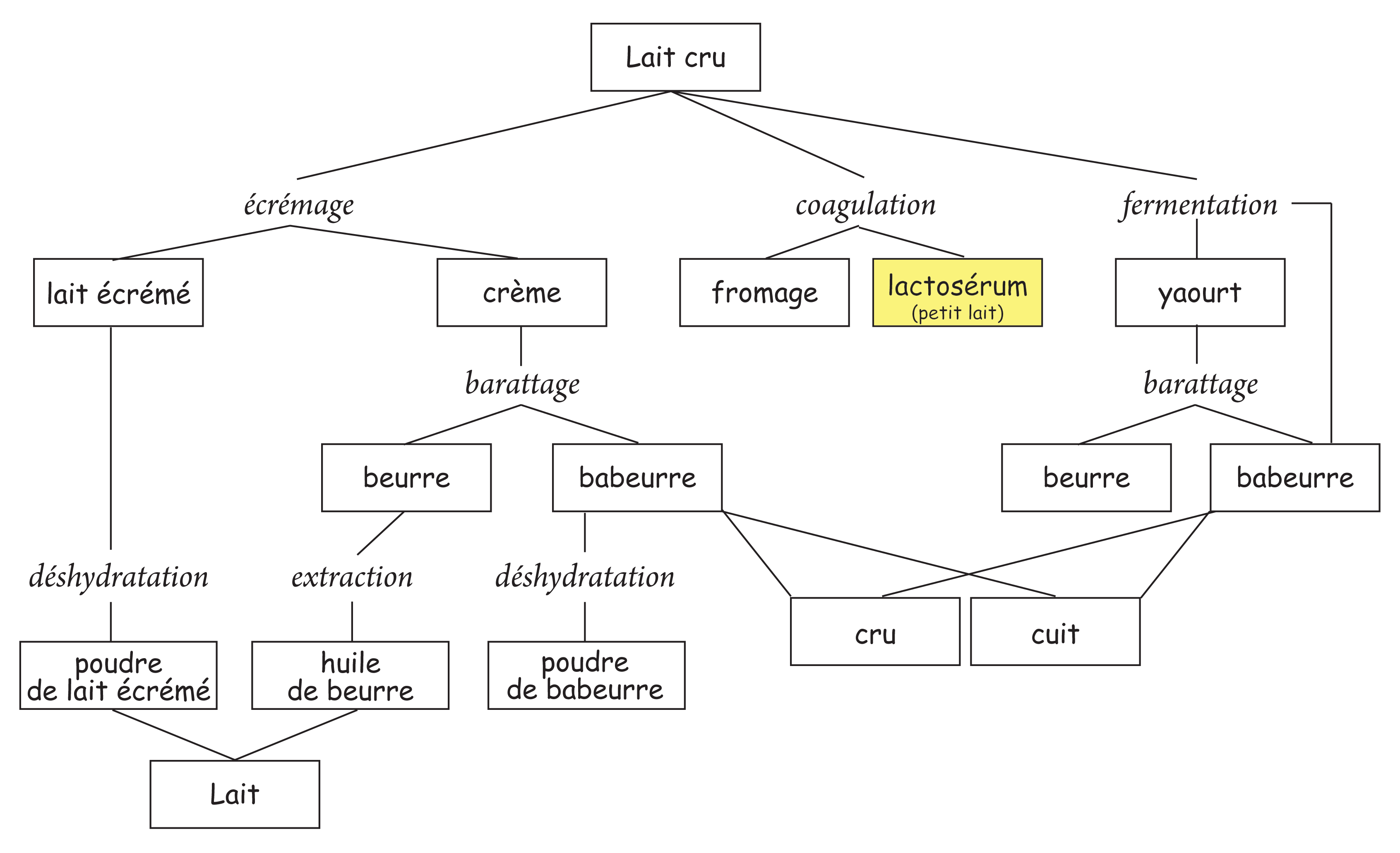 scheme of the production of whey